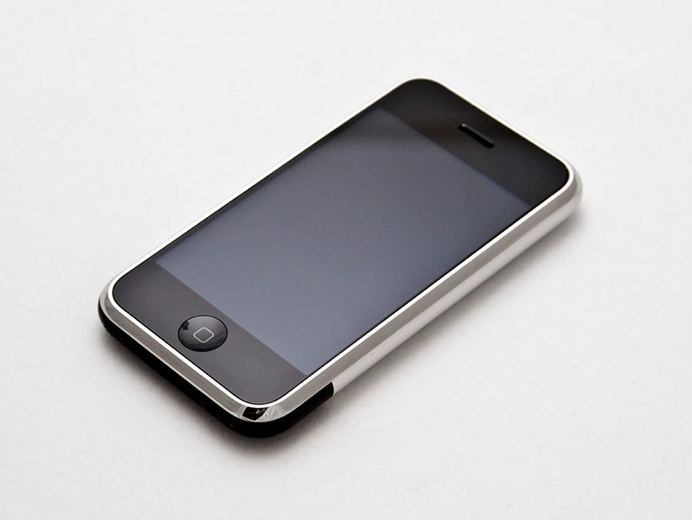 Apple portable media got a major upggrade with the introduction of the iPhone. Originally announced on January 9, 2007 Apple entered the market with its first Smart Phone market. With it signature touch screen and minimal interface that renders a virtual keyboard or custom interface options when necessary. The first generation iPhone has a 2.0 Megapixel camera, portable media functions, internet (including email, web browsing, and Wi-Fi connductivity) as well as text messaging and visual voicemail. First-generation phones were released with quad-band GSM EDGE.